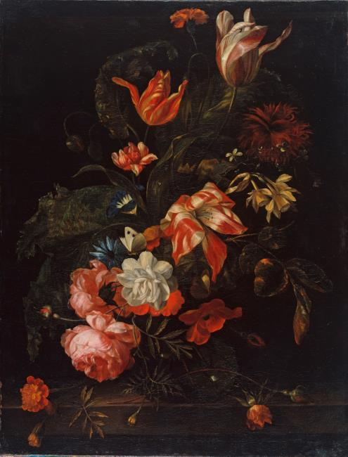 Flowers